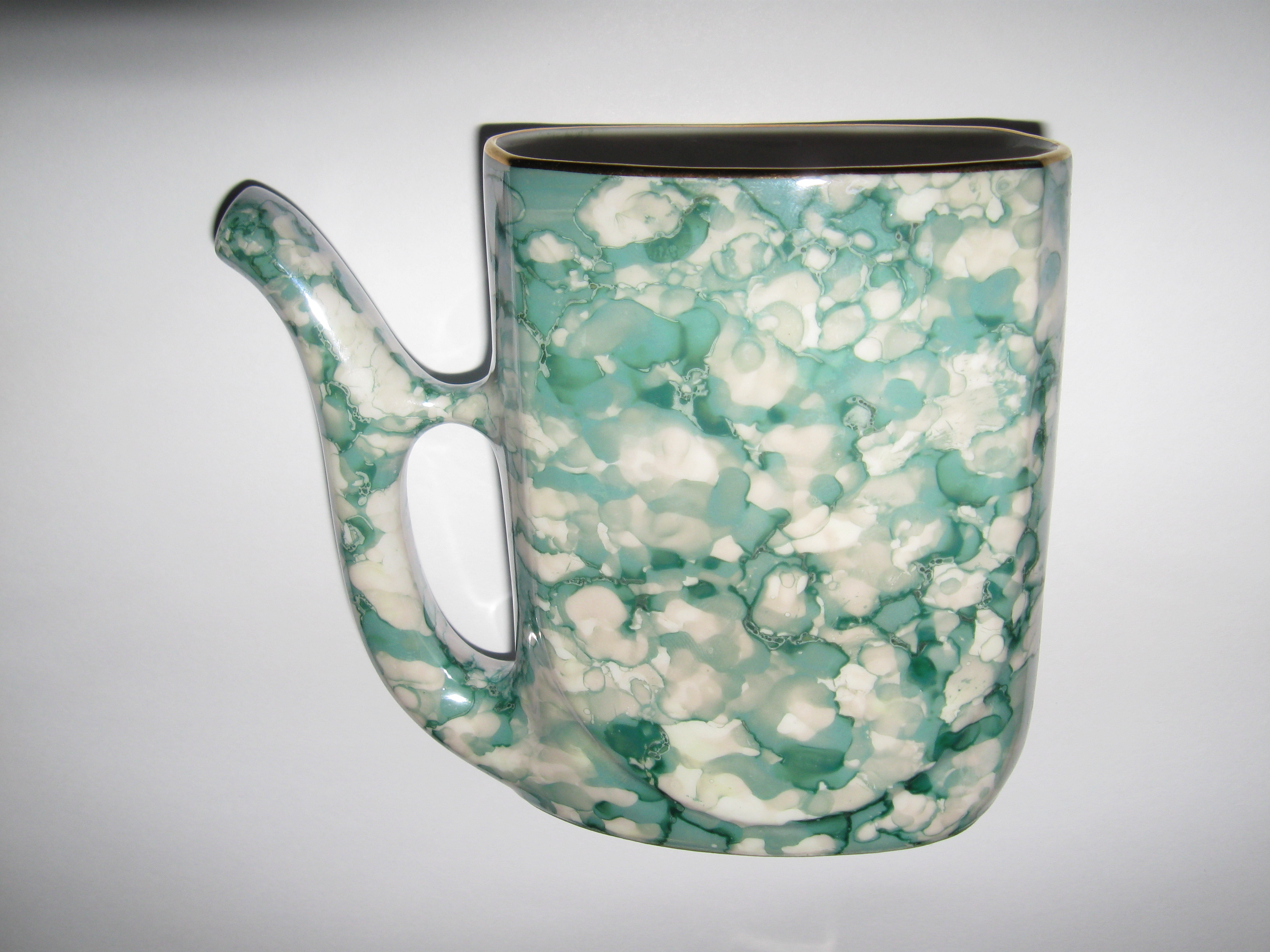 Karlovy Vary china vase with trunk, Czech Republic.